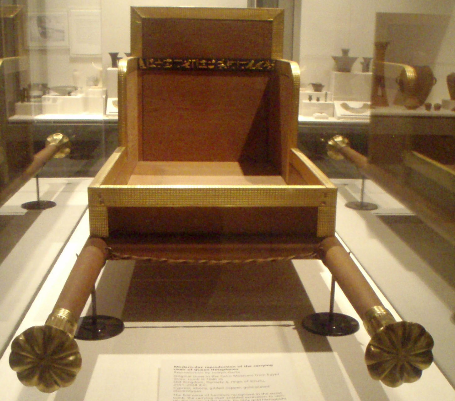 Carrying chair from the funerary furniture of Queen Hetepheres, from the 4th dynasty, circa 2575-2528 B.C. Thought to be a gift from her son, Khufu. Reconstruction of original on display in Cairo, this copy residing in the Museum of Fine Arts, Boston.